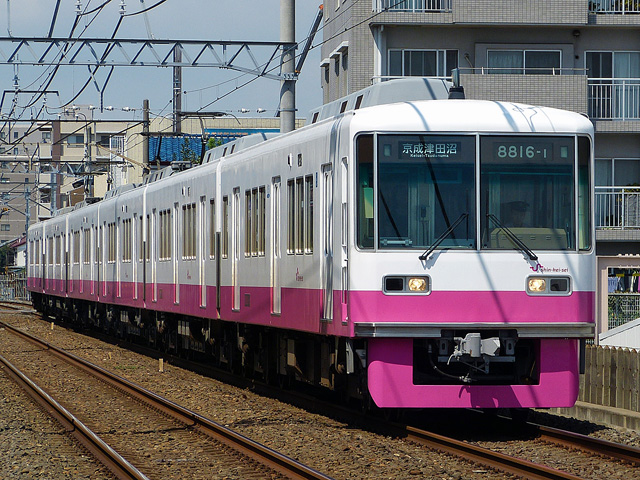 Shin-Keisei 8800 series EMU set 8816 in revised livery